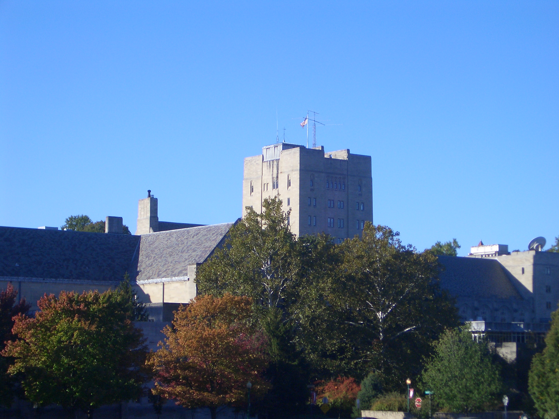 The Indiana Memorial Union looking southwest from the HPER parking lot in October 2005.